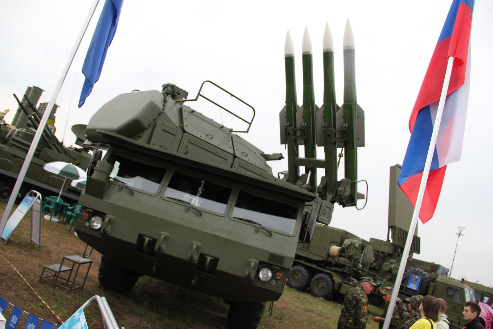 Buk M2E at MAKS 2011.